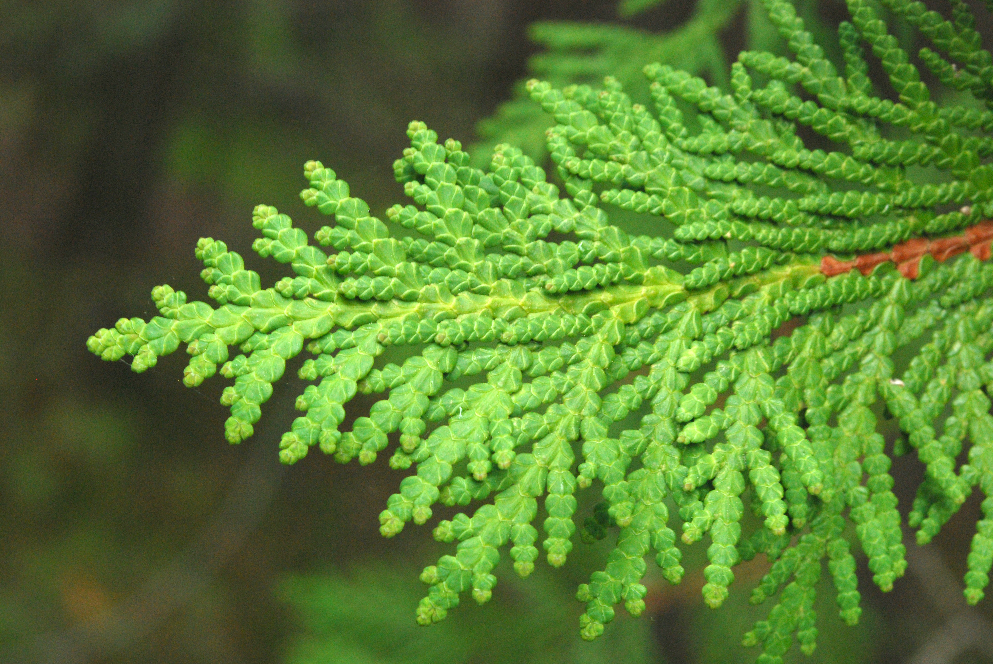 Thuja occidentalis foliage, Wisconsin State Natural Area #13, Peninsula State Park, Door County, Wisconsin